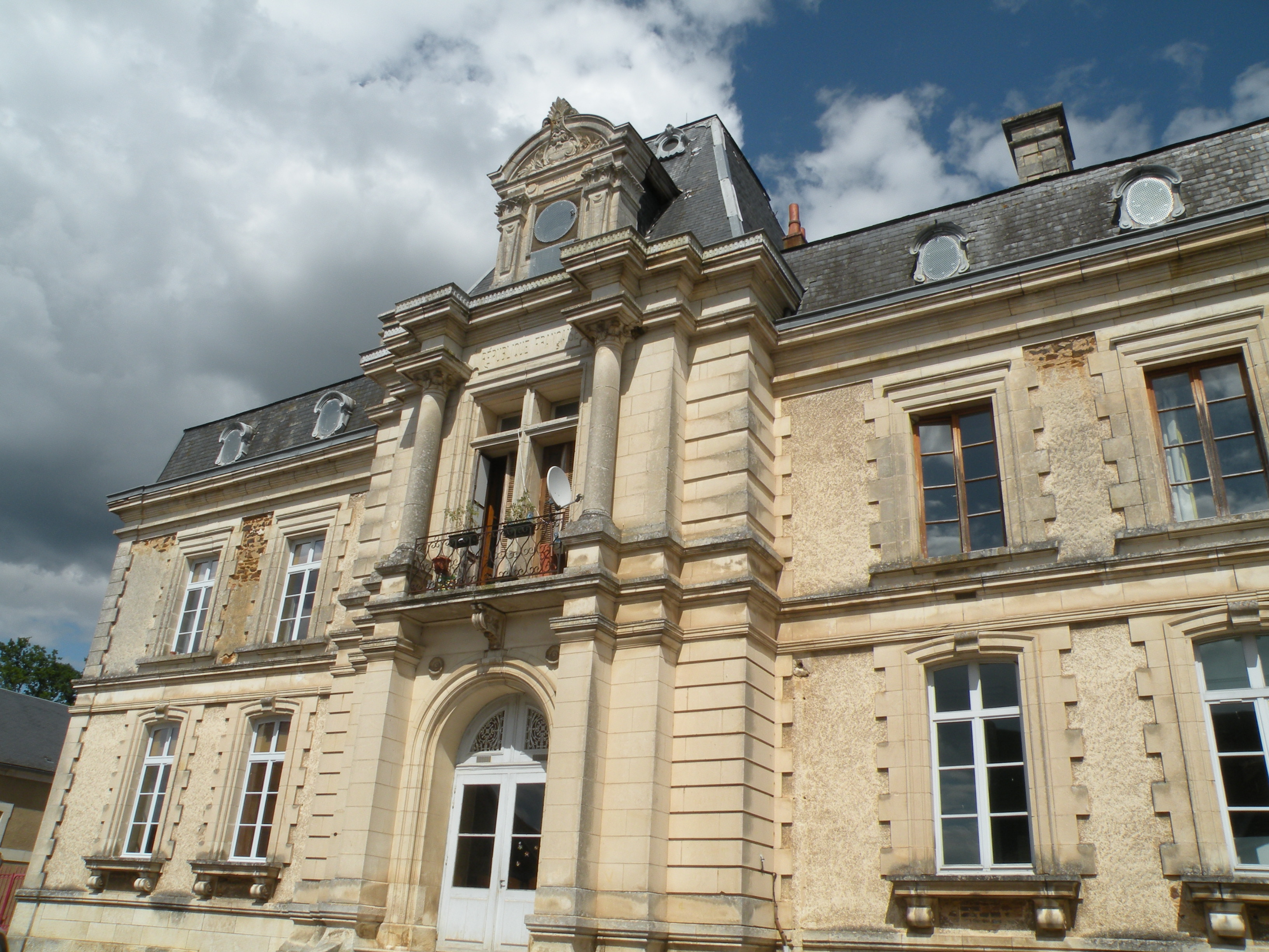 School of Saint-Amand-en-Puisaye